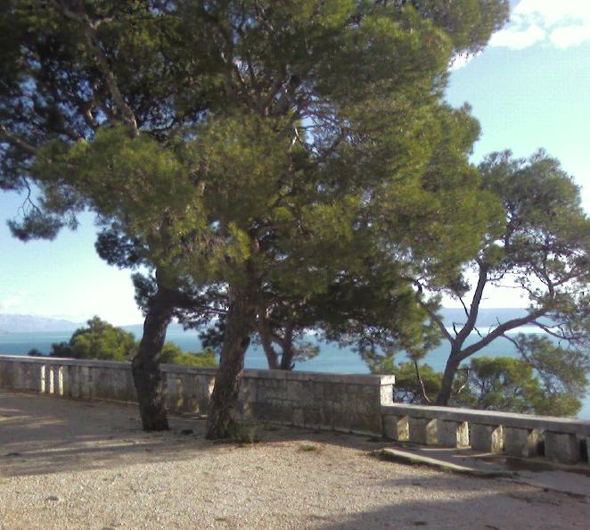 Trees on Telegrin, Marjan hill, Split, Croatia